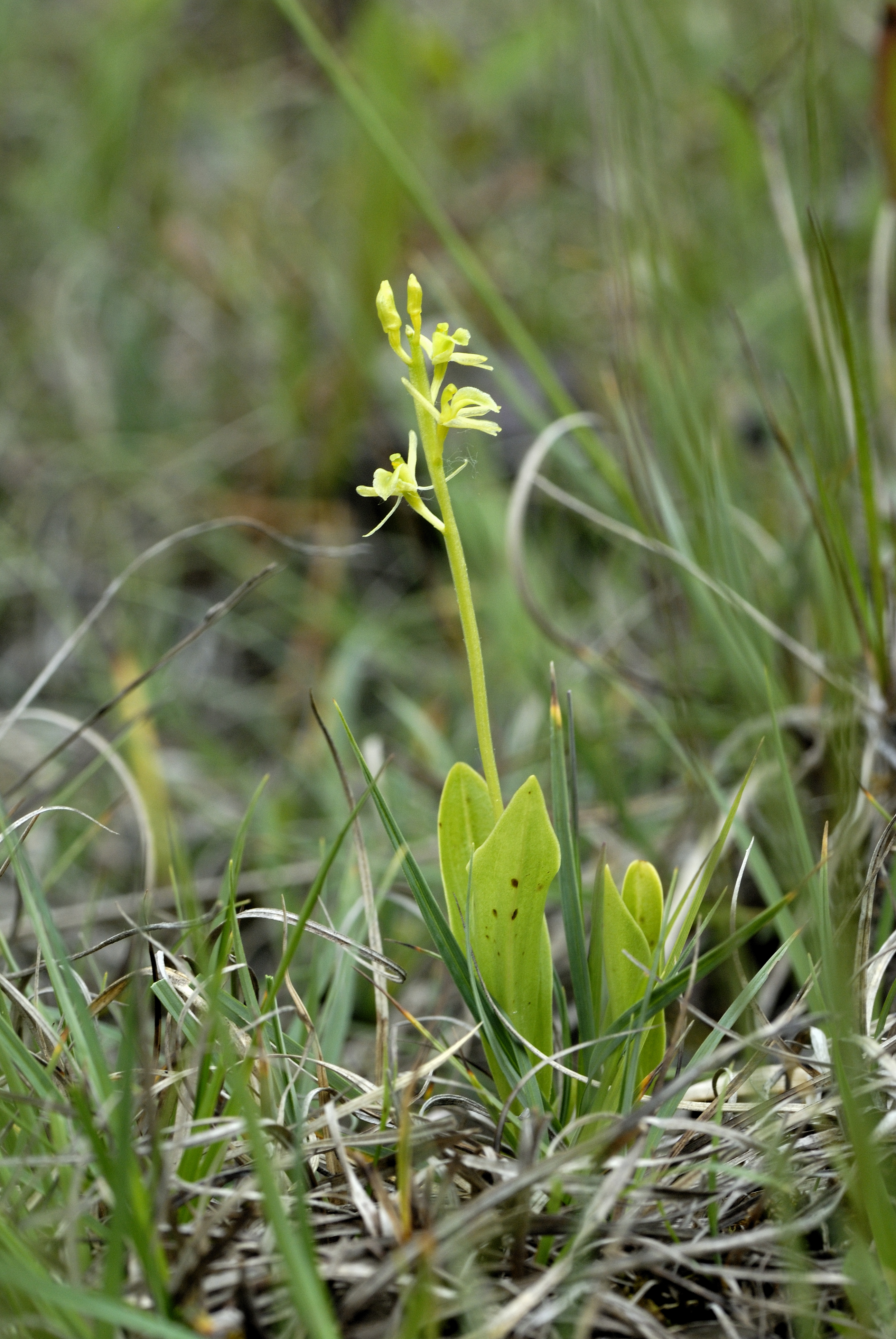 Liparis loeselii Beckum North Rhine-Westphalia/Germany